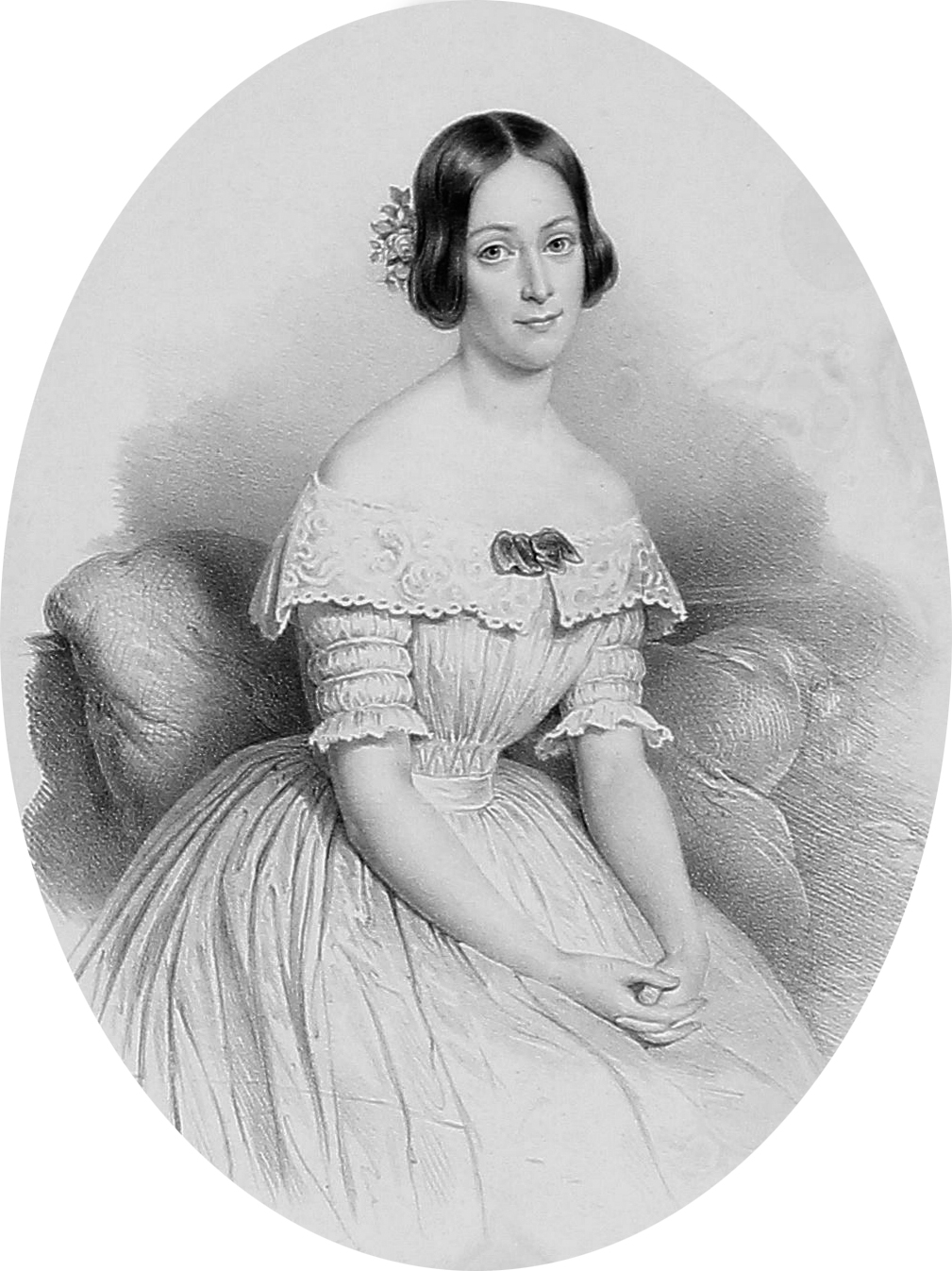 Augusta Nielsen 19th century